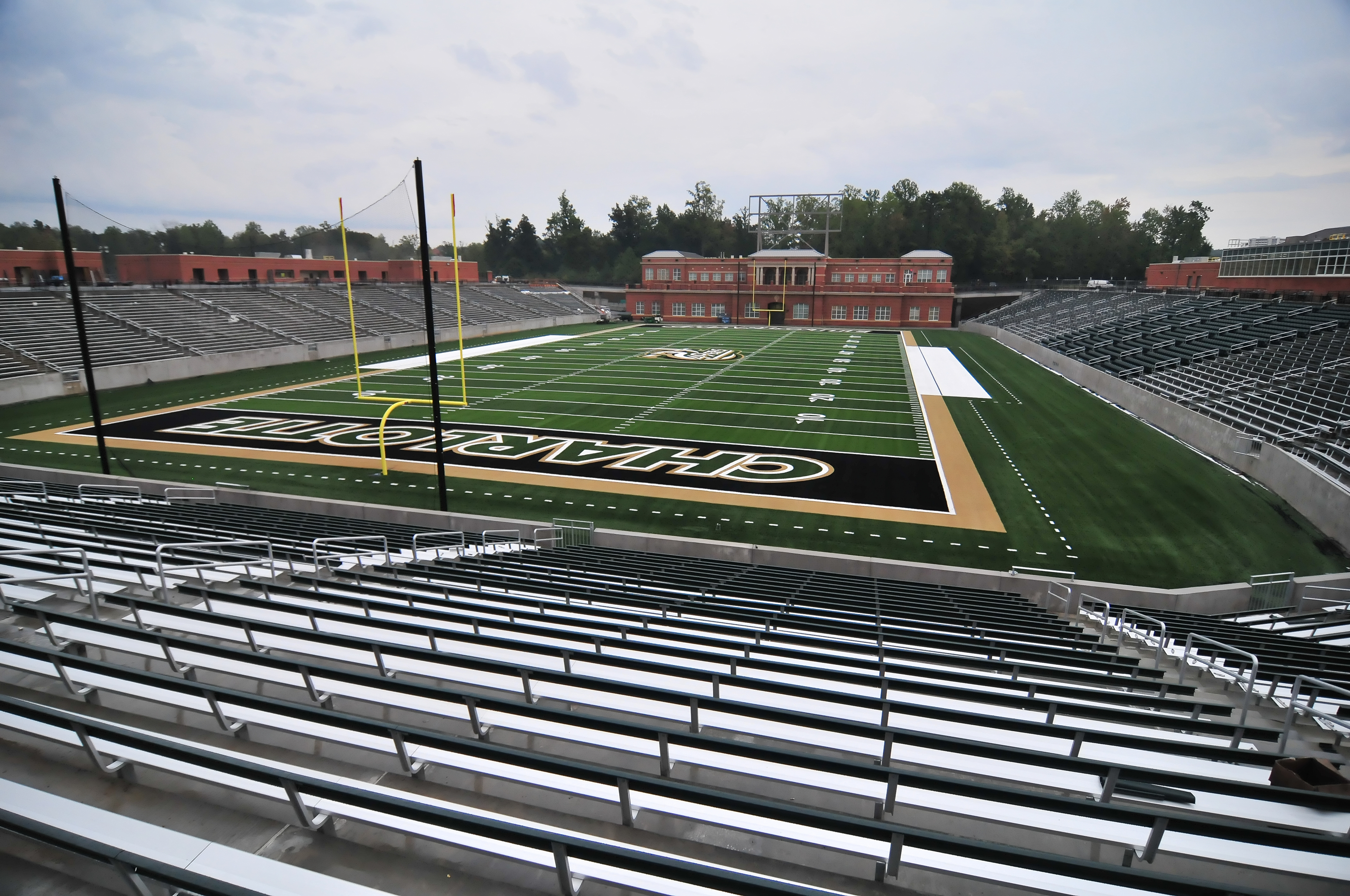 A photograph of Jerry Richardson Stadium, the new American football facility for the Charlotte 49ers football team.